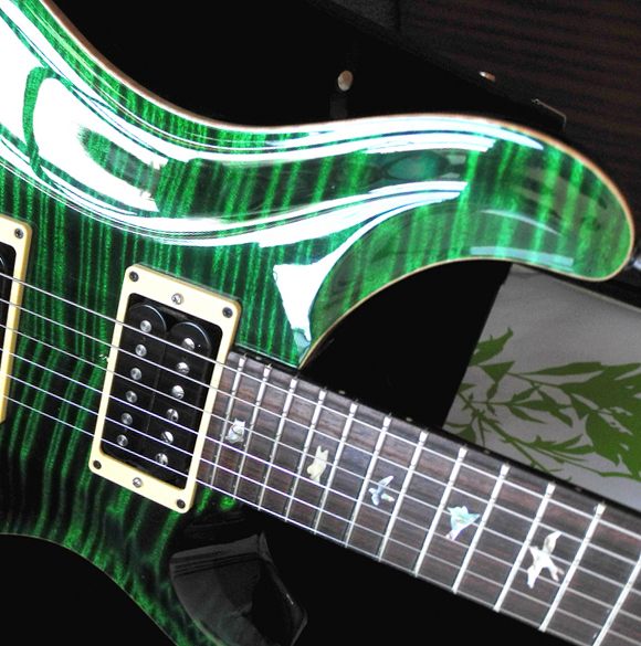 Prs Custom 24 Emerald green, body.